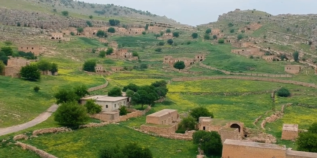 Yazidi village Kiwekh in Turkey